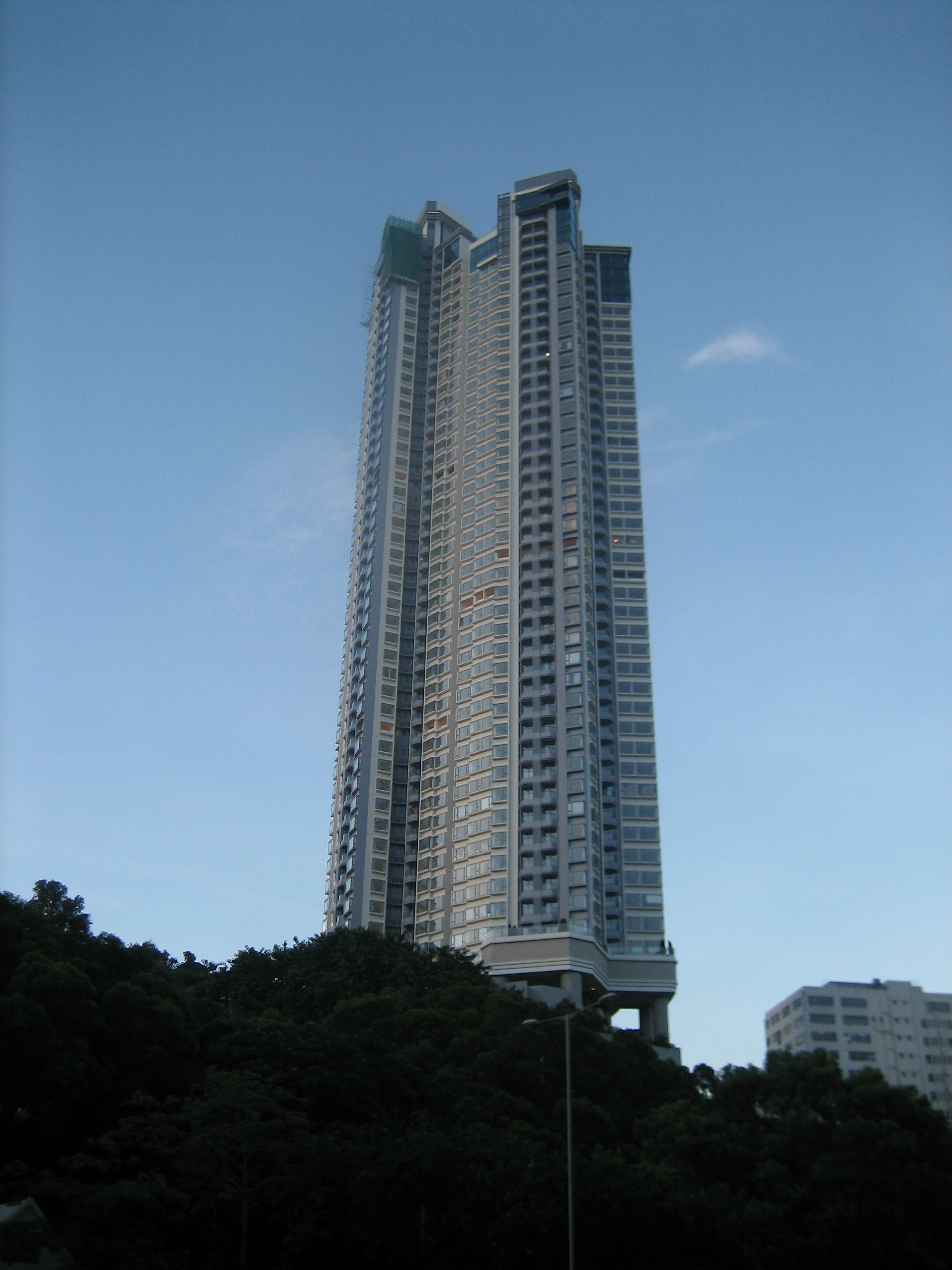 Primrose Hill in August 2010